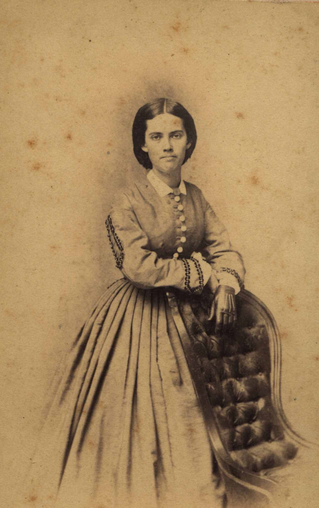 Juliette Monatgue Cooke Atherton.